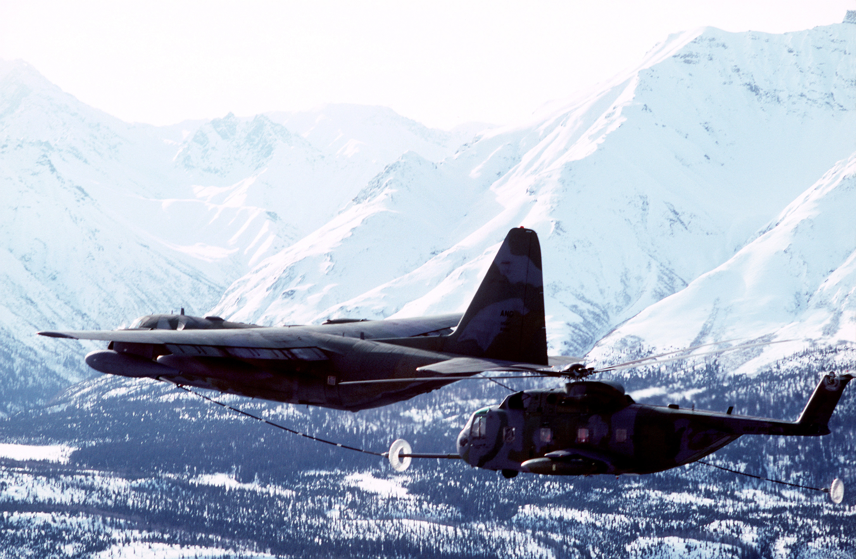 A U.S. Air Force 210th Air Rescue Squadron, Alaska Air National Guard, Lockheed HC-130P Hercules aircraft conducts an in flight refueling with a 71st ARS Sikorsky HH-3E Jolly Green Giant helicopter, 10 April 1991.